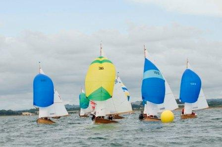 Dublin Bay Mermaids reaching at National Championship 2009